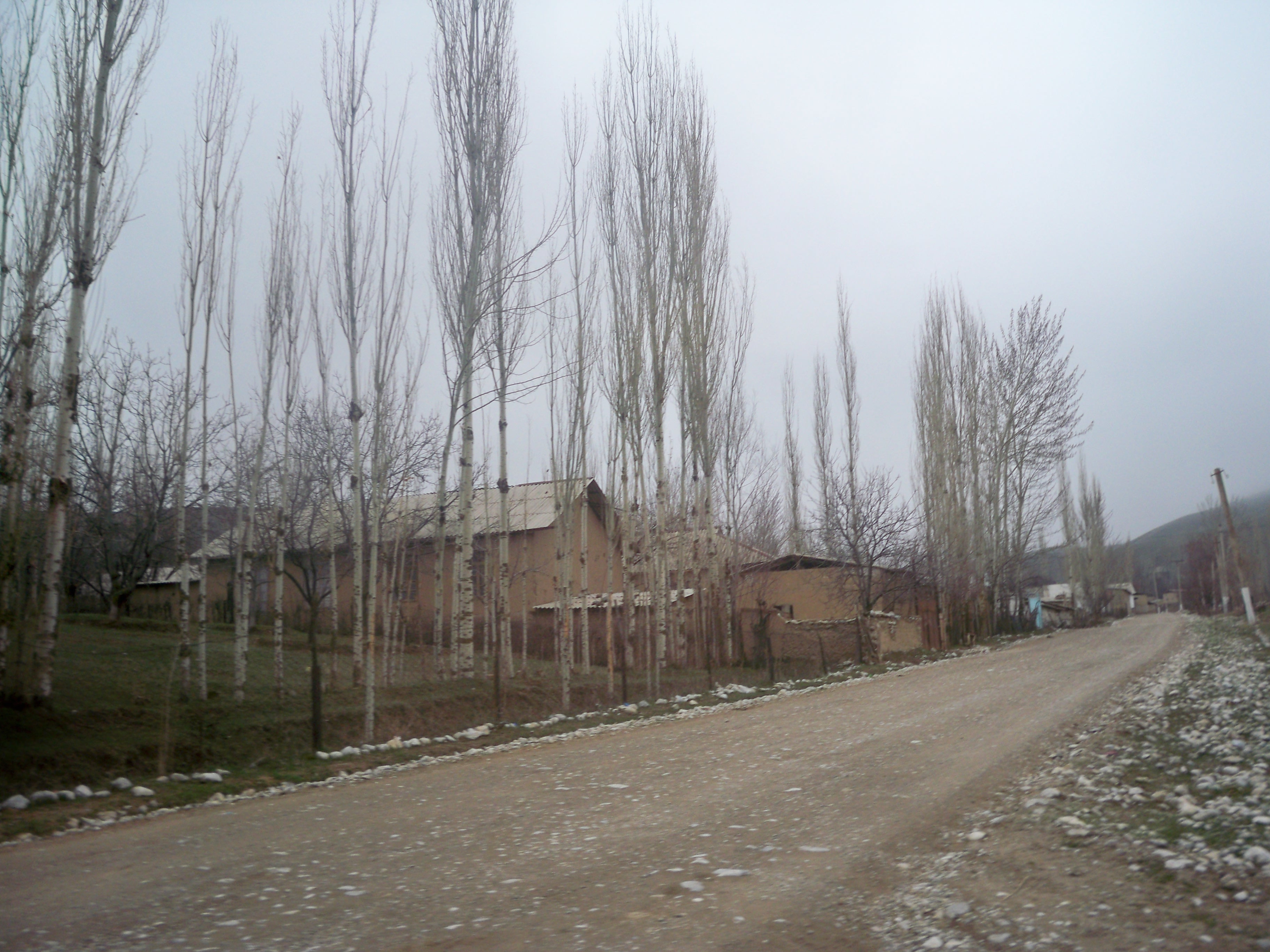 One of the main roads in Ak-Bulak. Leilek District, Kyrgyzstan.